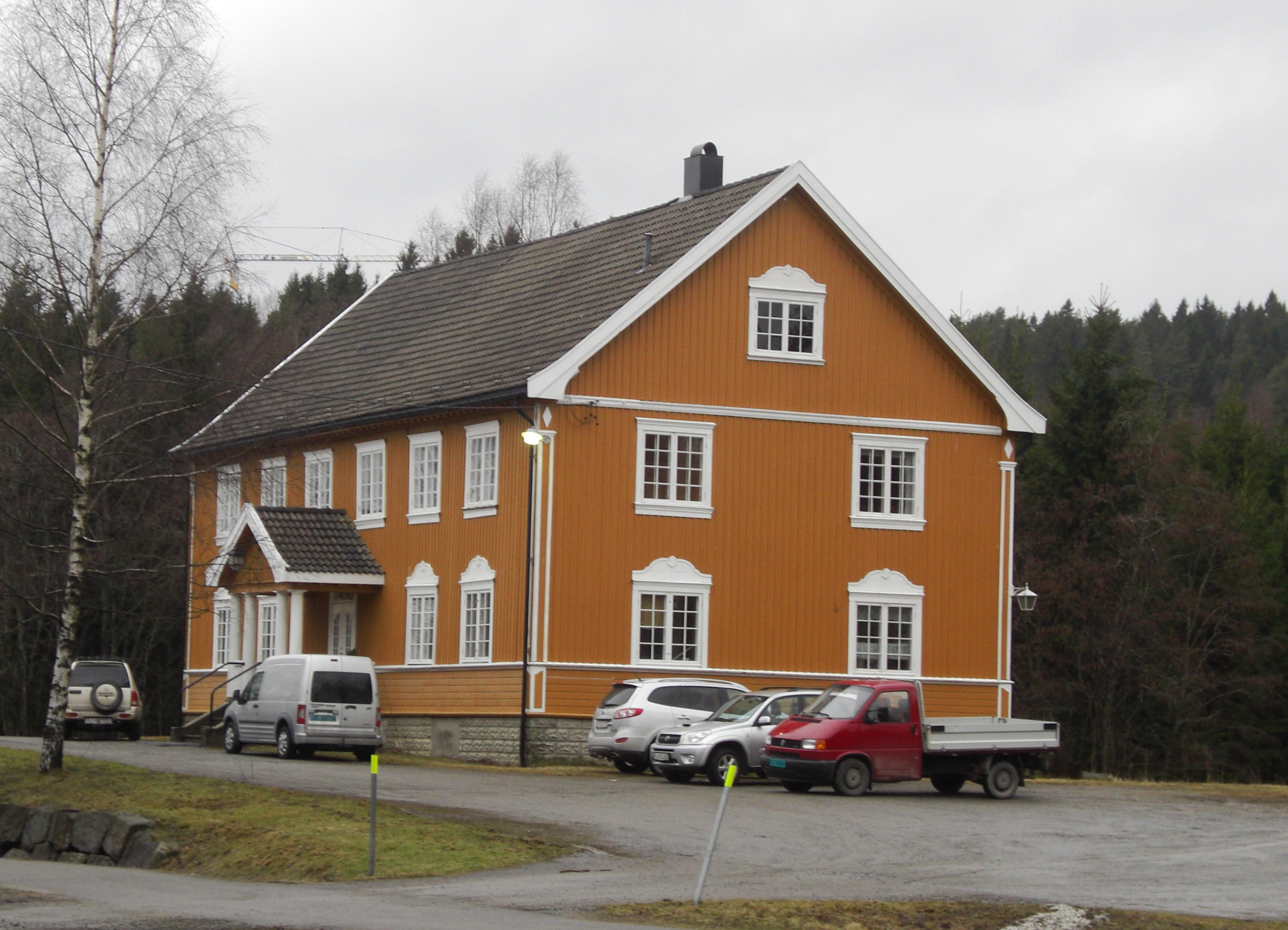 Farmers' house, Hærland